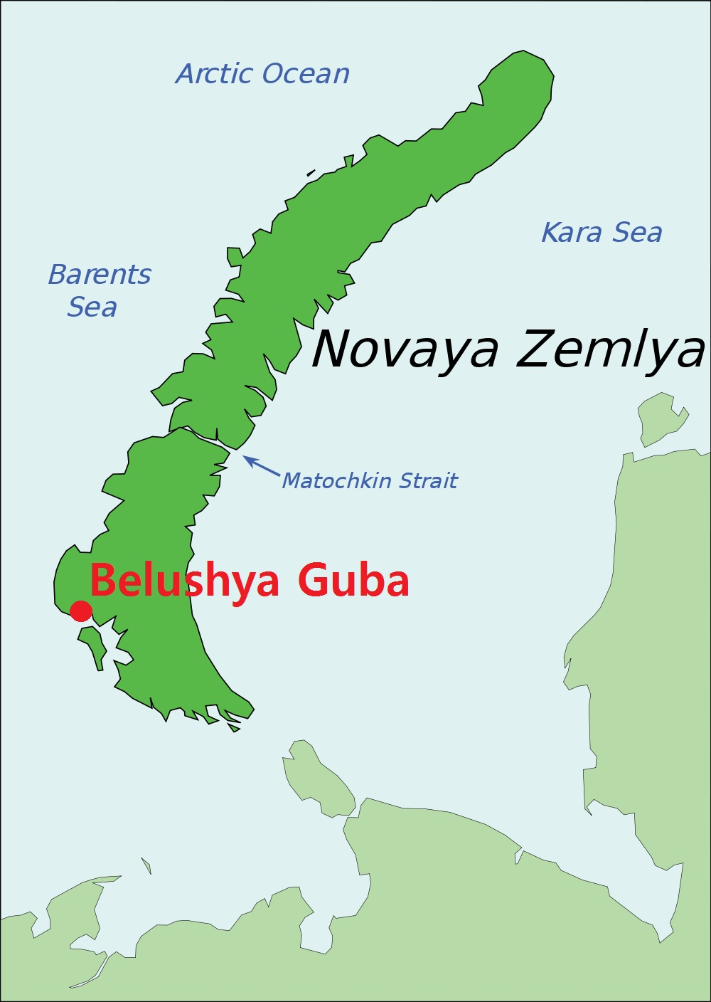 Created by myself.